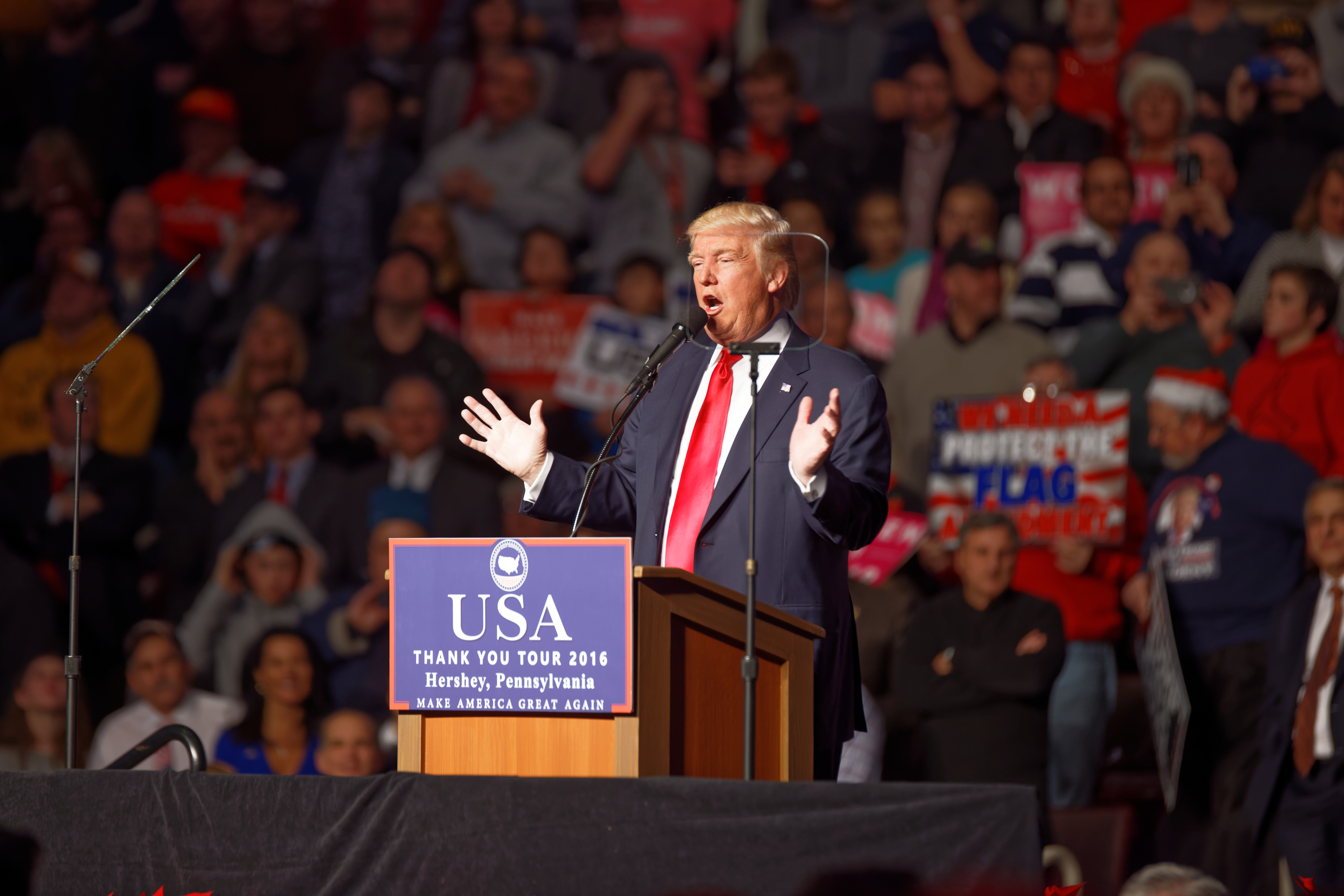 President-elect Donald Trump is bringing his post-election tour of gratitude to Hershey tonight, returning to the Giant Center six weeks after he was there for a last-minute push to win over Pennsylvania voters before Election Day. Trump and Vice President-elect Mike Pence are scheduled for a 7 p.m. rally, according to their campaign website. Doors open at 4 p.m. The “USA Thank You Tour” brings back Trump’s energetic rallies that filled venues in Pennsylvania and across the country during his year and a half of campaigning. The tour begain in Cincinnati, Ohio, and he has also stopped in Fayetteville, North Carolina and is scheduled for rallies in Iowa, Louisiana and Michigan. Four days before the Nov. 8 election, Trump told about 10,000 fans filling the Hershey arena that he predicted he would win the Keystone State, even as polls showed he was down by 3 percentage points to Democrat Hillary Clinton. He would go on to become the first Republican since George H.W. Bush in 1988 to win the state. Trump emerged with about 44,300 more votes than Clinton out of more than 6 million votes cast — winning by a margin of about three-quarters of one percentage point. At his Cincinnati rally on Dec. 1, he said he “had a lot of fun fighting” Clinton.